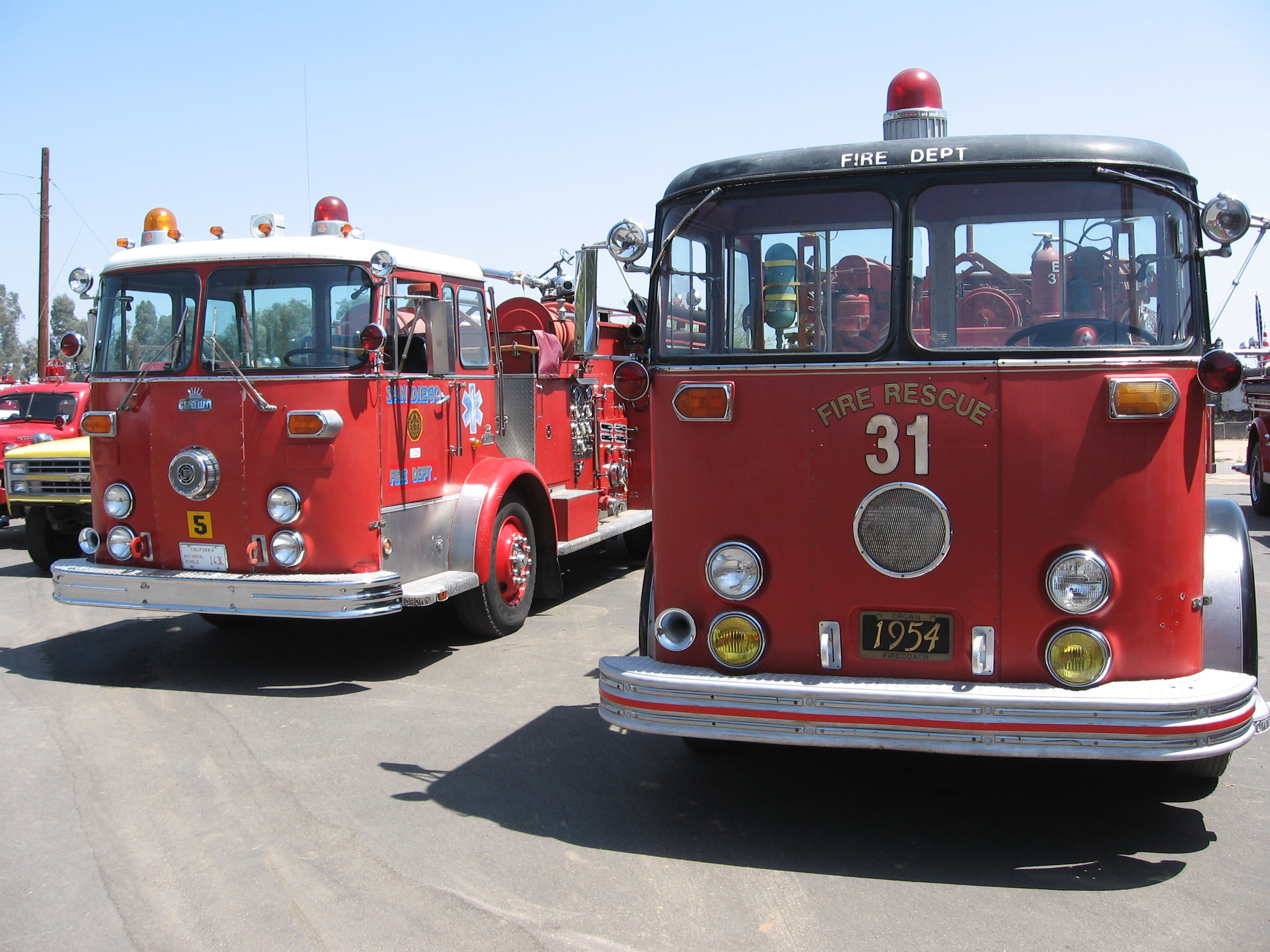 Crown Coach Corporation Firecoaches